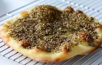 Zaatar pita from TK Kaffee in Five Points, Raleigh North Carolina. Uploaded with permission and as a demonstration for the cafe proprietors, Wiki Summer of Monuments camping trip, 2014. This image was uploaded as part of Wikipedia Summer of Monuments. English |+/−